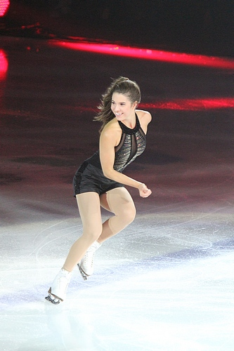 Stars on Ice in Manchester 2010.